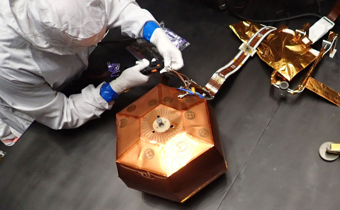 InSight Spacecraft : SEIS in preparation for thermal vacuum testing, before being covered by Wind and Thermal Shield